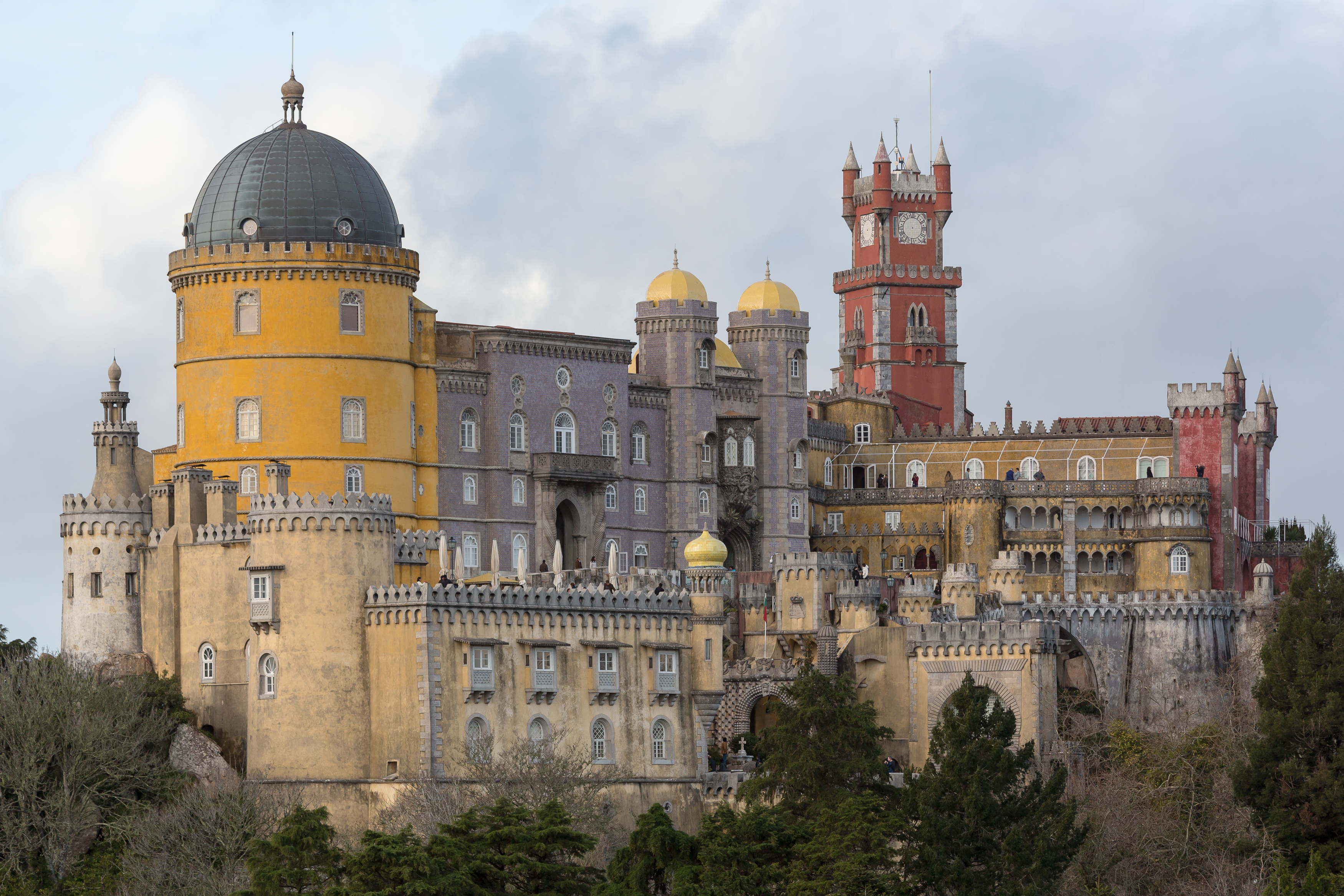 Palácio Nacional da Pena, Sintra, Portugal: View of the palace from 38.7846349N 9.3896539W